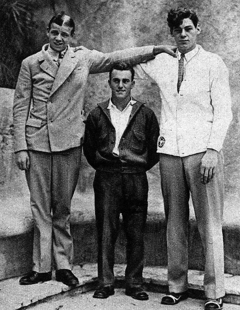 Sport, Swimming, 1924 Olympic medalists Arne Borg, Sweden and Johnny Weismuller, U,S,A, (right) flank the diminutive diver Peter Desjardins, U,S,A, pic: 1926